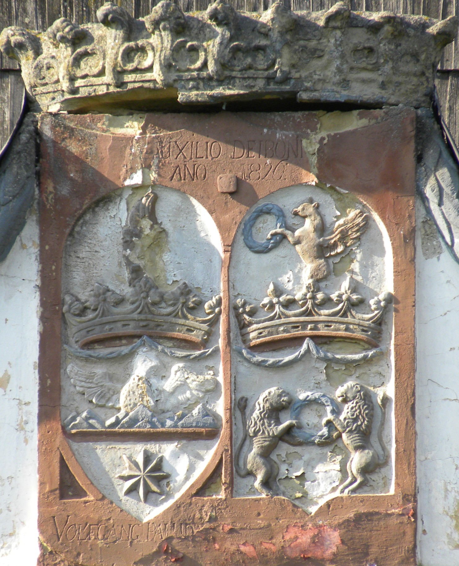 Coats of arms of Farkas (Wolfgang) Palugyay and Johana Pletrich. Attic of manor house "Bocian"/"Stork", Liptovský Mikuláš-Palúdzka, Slovakia.